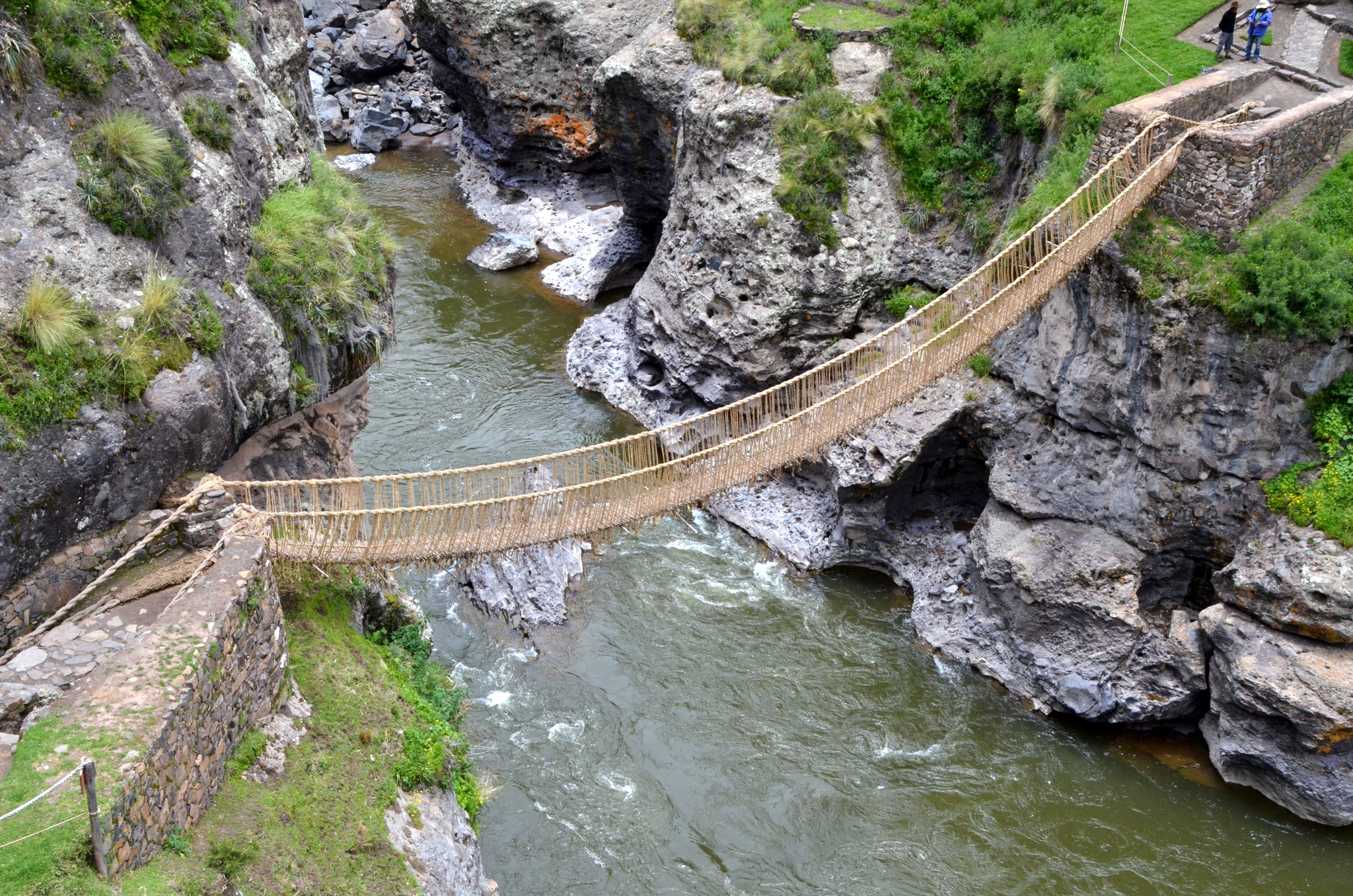 The Q'eswachaka bridge is the last exixsting Inka style bridges in Perù. It is rebuilt every 2 years